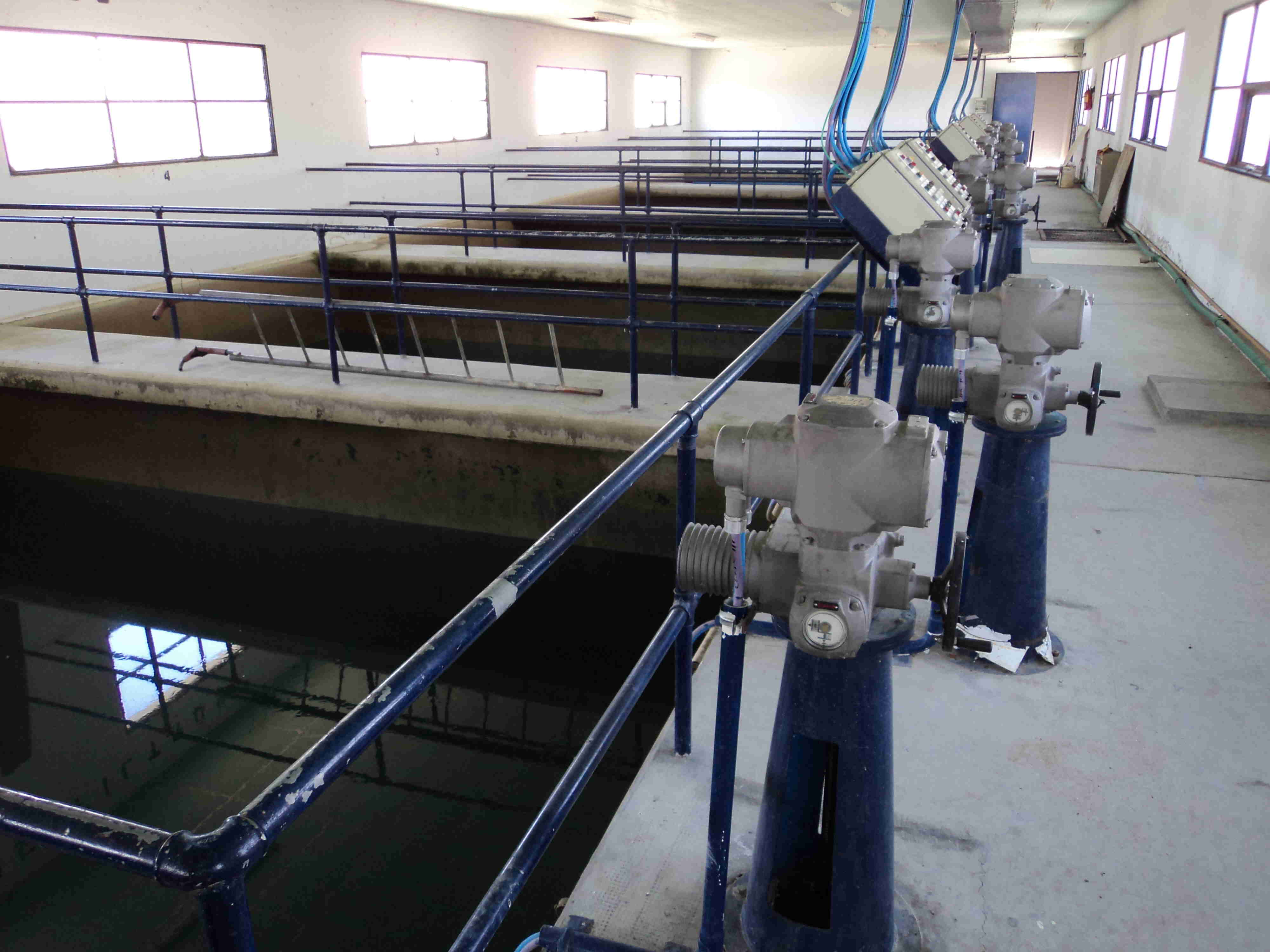 Filtros de tasa declinante de 40 m2 c/u